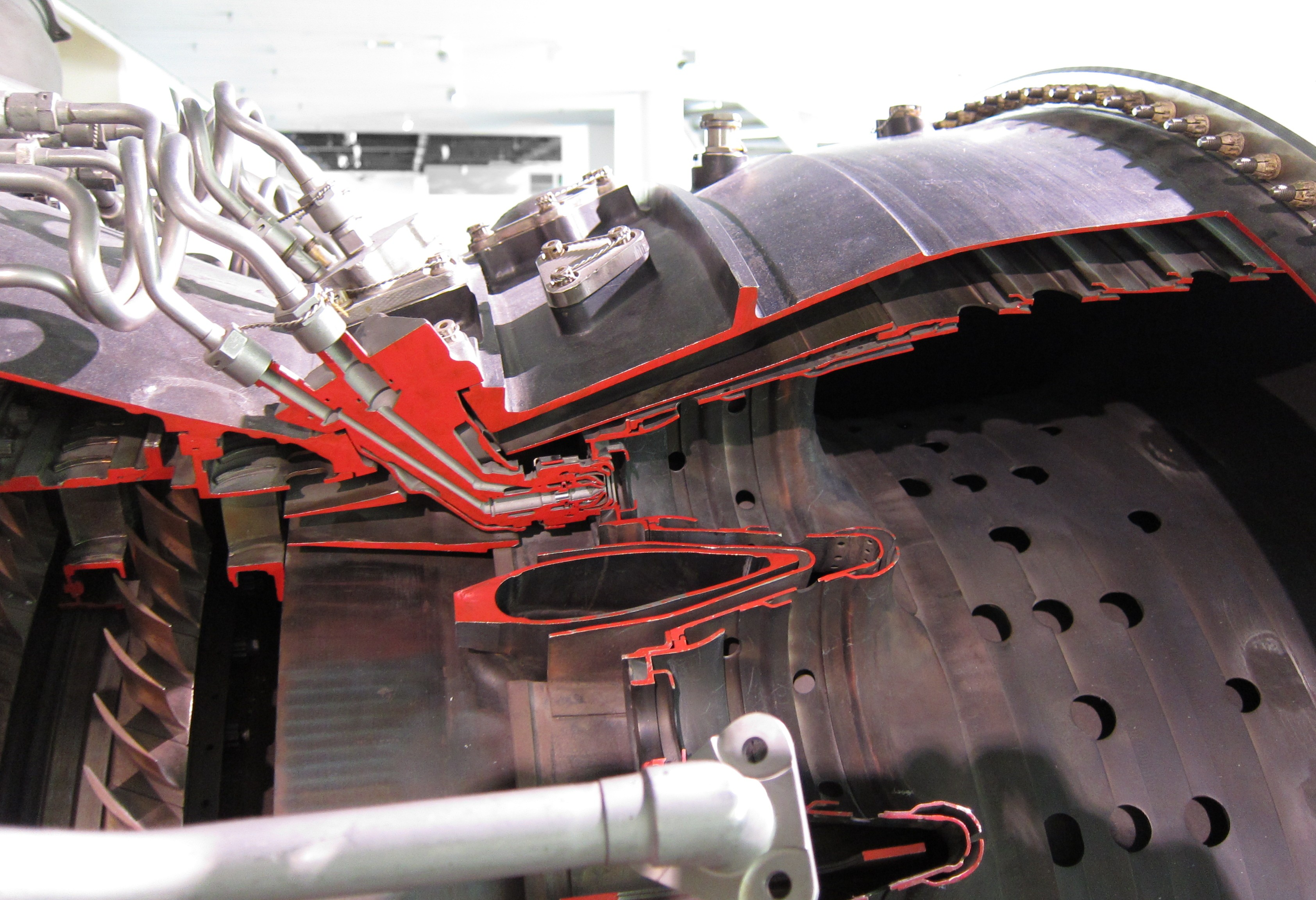 Cutaway of the annular combustion chamber on a Pratt & Whitney JT9-7D turbofan engine. The air flow is from left to right. Discrete fuel injectors maintain flame zones which share a common ring (annulus) casing. This engine is part of the exhibit of the Deutsches Museum.